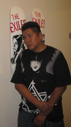 Douglas Miles (San Carlos Apache/Akimel O'odham), artist, youth advocate, and founder of Apache Skateboards, from Arizona